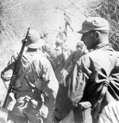 Rangers on the way to the Cabanatuan prison camp.